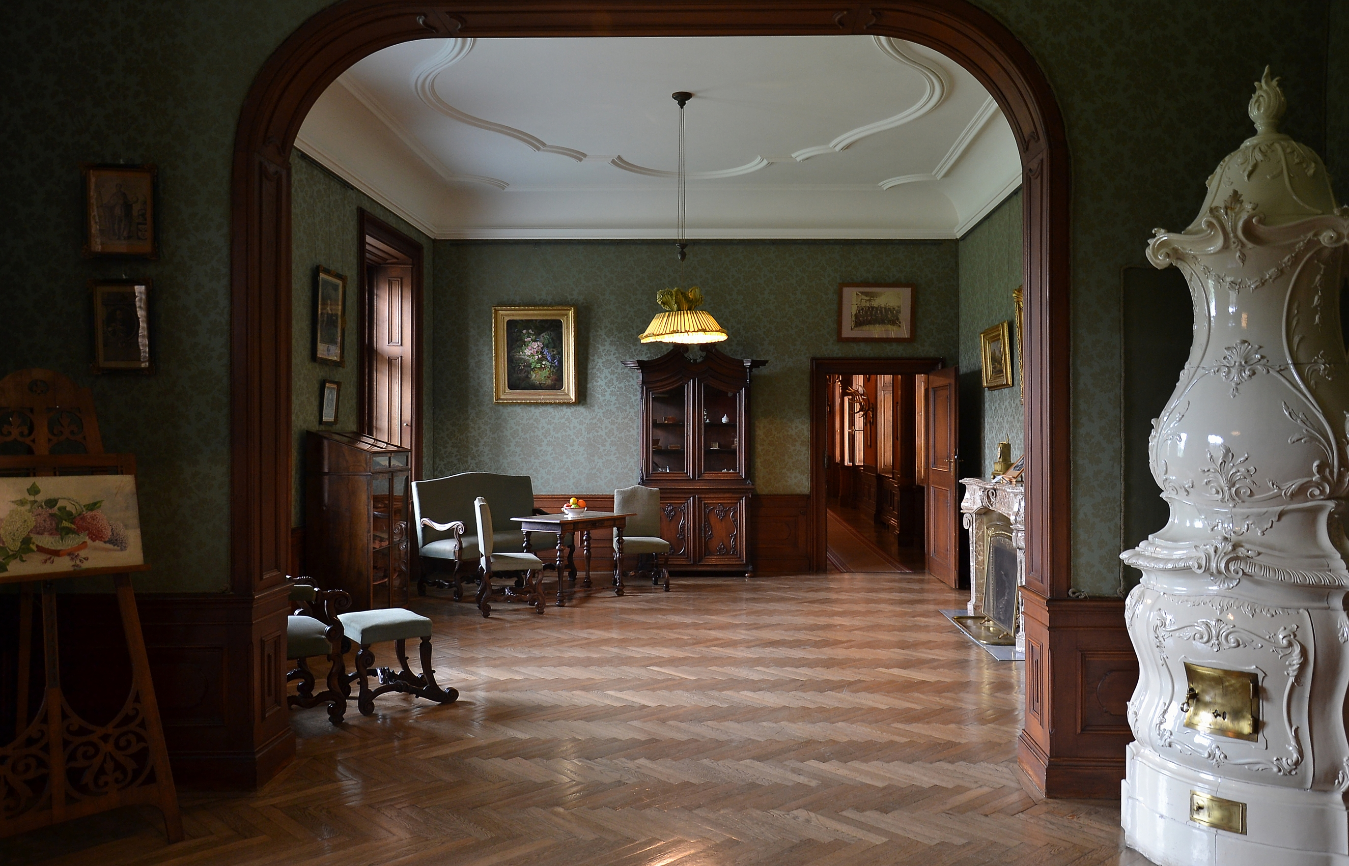 Castle Eckartsau, Austria. It was here in 1918 under Emperor Karl I that the imperial family spent its last Christmas and its last days on Austrian soil.